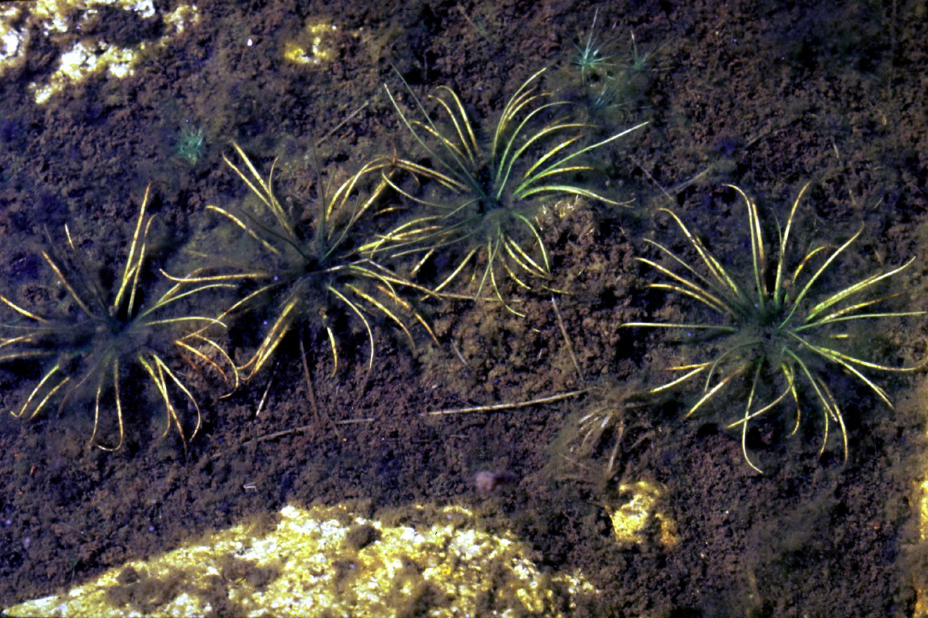 Isoetes echinospora Durieu (1861) - Spiny-spore quillwort